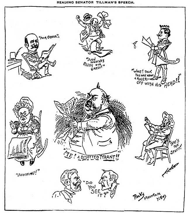 "Reading Senator Tillman's Speech": Reaction to the speech of "Pitchfork Ben" Tillman in the Senate, February 26, 1896